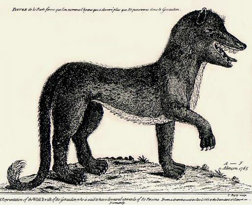 18th-century engraving of la Bête du Gévaudan, The London Magazine, vol. xxxiv, May 1765 (reprinted in Montague Summers, Werewolf, 1933).